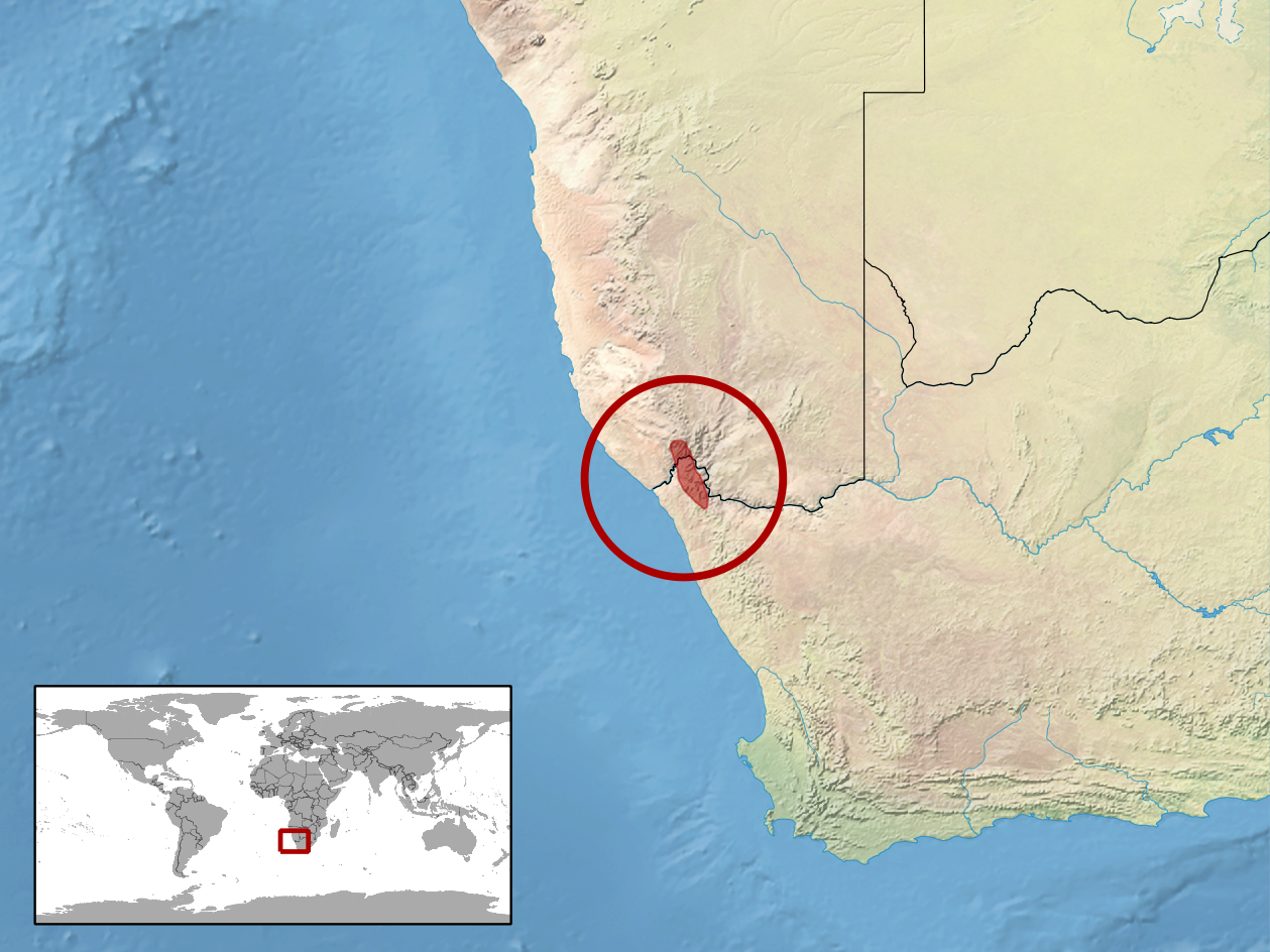 geographic distribution of Goggia gemmula (Native: Namibia; South Africa (Northern Cape Province))